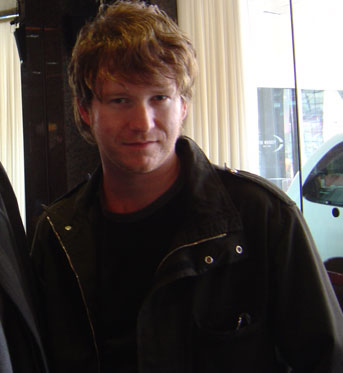 Picture of Phil Cunningham, Chicago, May 3rd 2005